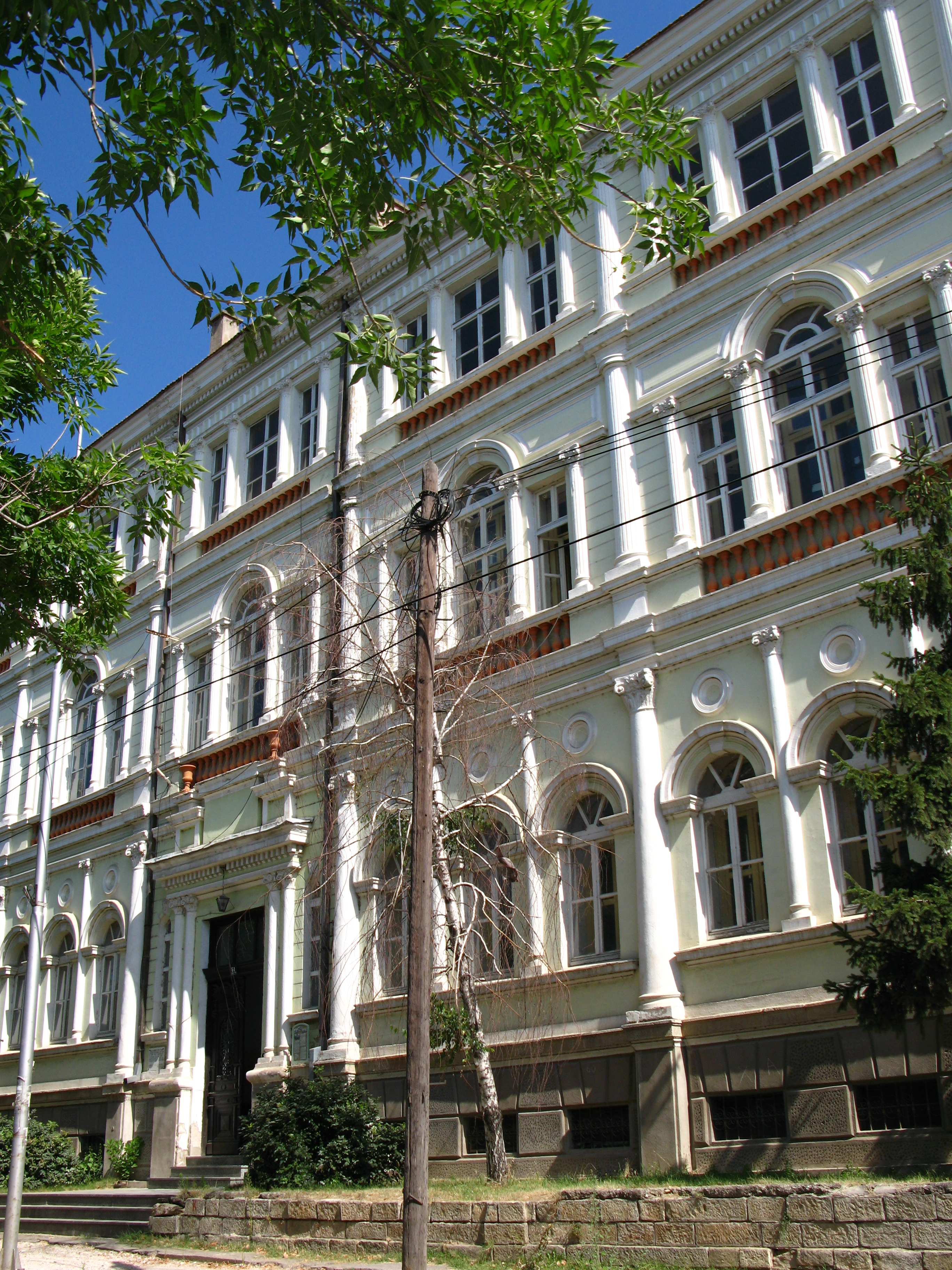 Secondary school "Josip Broz-Tito" in Bitola, Macedonia.